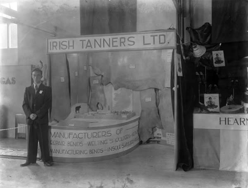 Salesman at the Irish Tanners Ltd. stall, a display that was part of the 8th National Rural Week (organised by Muintir na Tíre), based at De La Salle Training College, Waterford, from 5-12 August 1945. Looks as if the stall to left was advertising the Gas Company, and that to the right belonged to Hearne's Department Store. Date: 7 August 1945 NLI Ref.: P_WP_4495